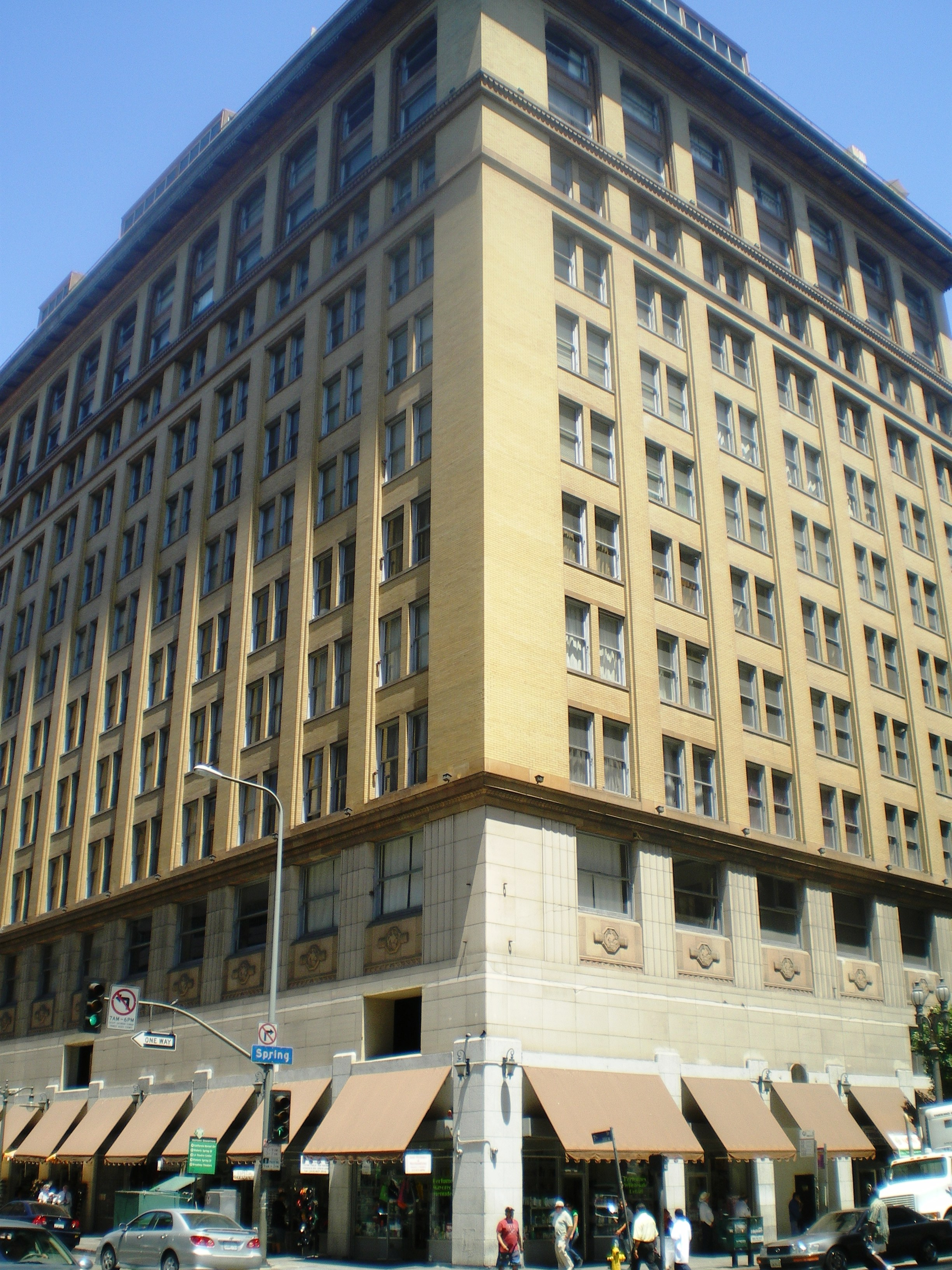 A.G. Bartlett Building —, 651 S. Spring Street, Downtown Los Angeles, California. Historic district contributing property of the Spring Street Financial District, a historic district on the National Register of Historic Places in Los Angeles.